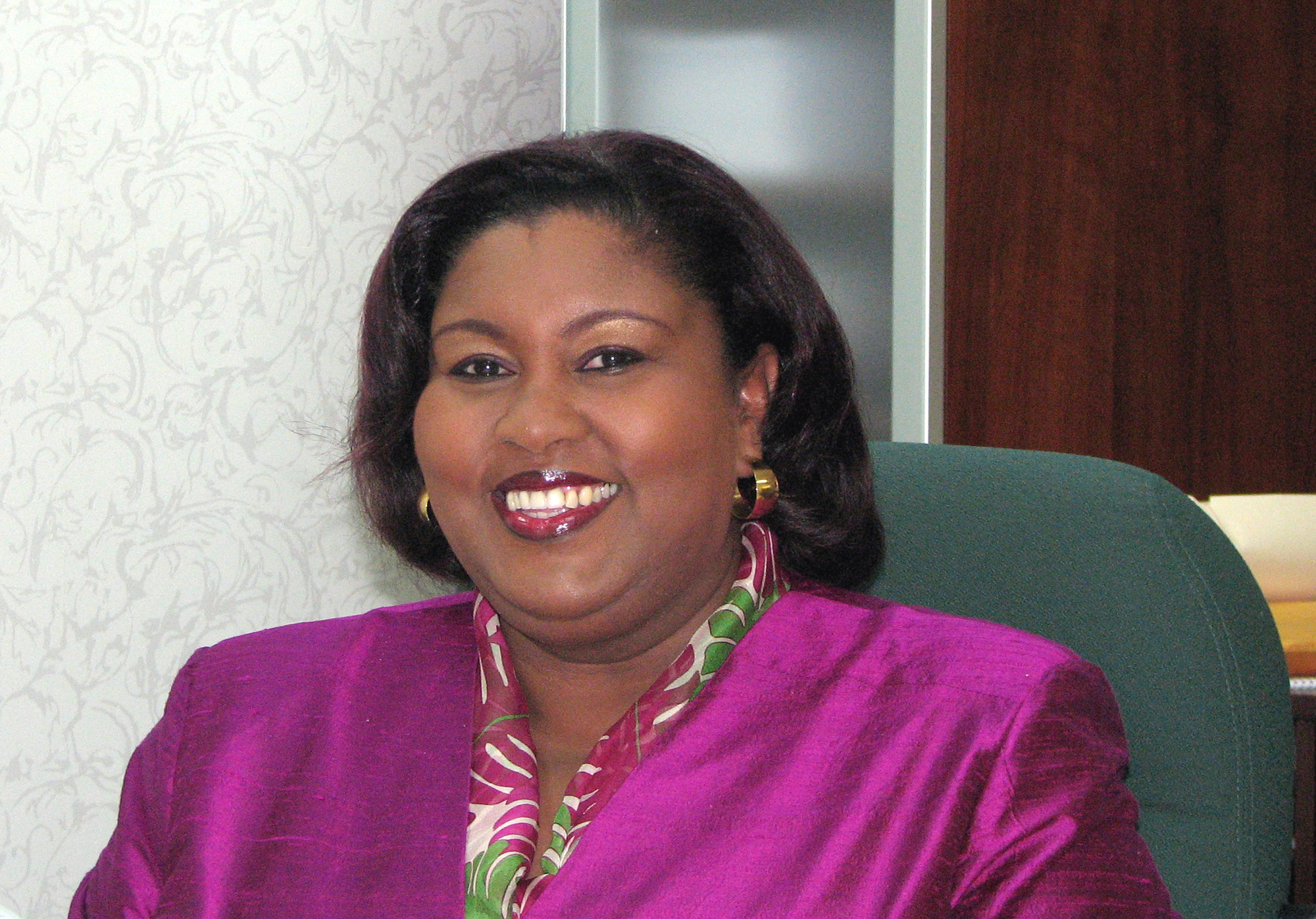 Trinidad and Tobago Minister of Community Development, Culture and Gender Affairs, the Honourable Marlene McDonald